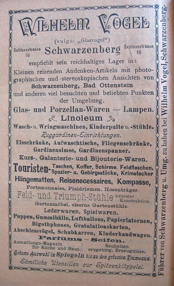 Wilhelm Vogel Advertisement